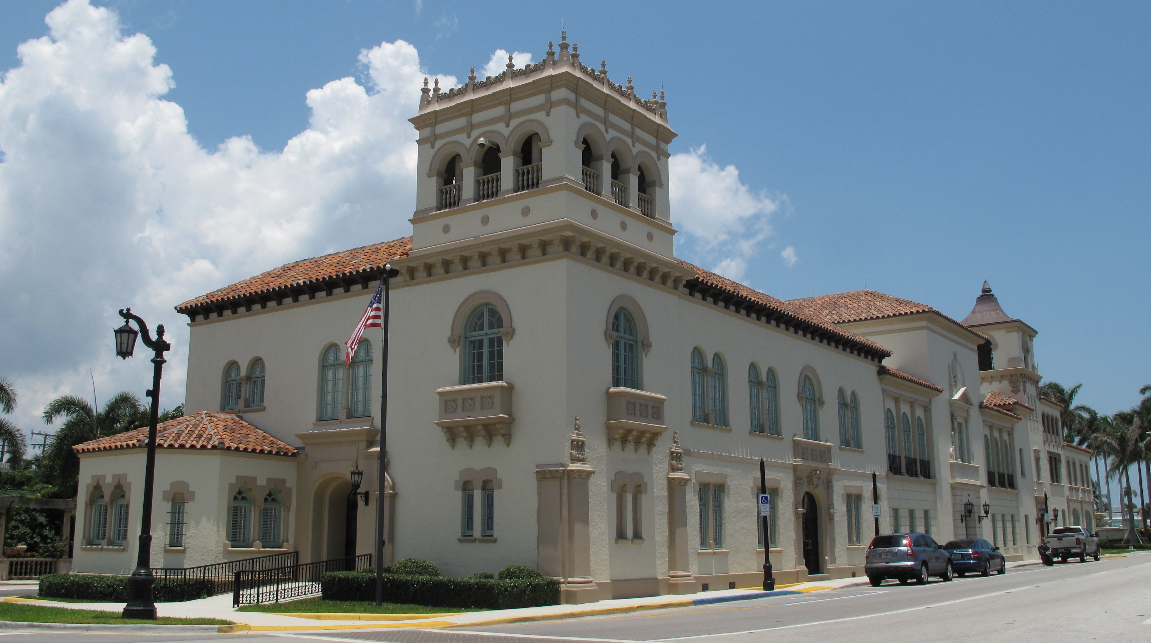 Palm Beach Town Hall, looking N.W., from County Road, Palm Beach, Florida, USA.